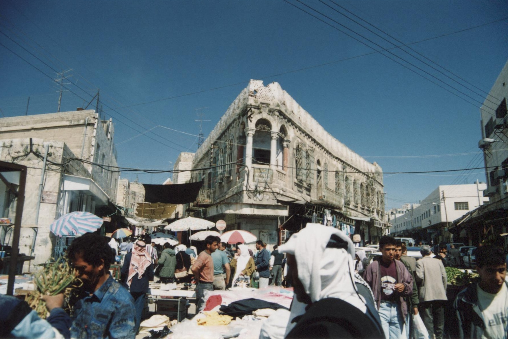 Street Market in central Hebron.